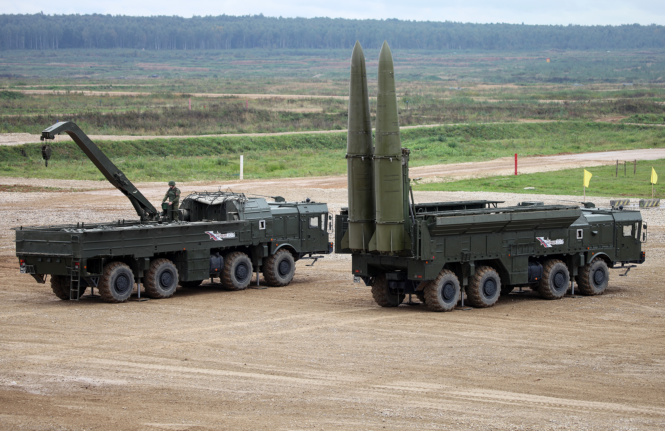 ТЗМ 9Т250 и СПУ 9П78-1 с ракетами 9М723К5 ОТРК 9К720 Искандер-М (9T250 transloader and 9P78-1 TEL with 9M723K5 missiles of 9K720 Iskander-M SRBM system)